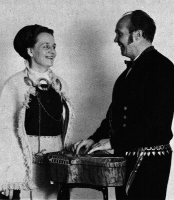 Photograph of the Finnish folk musicians Marjatta Pokela (1925–2002) and her husband Martti Pokela (1924–2007).